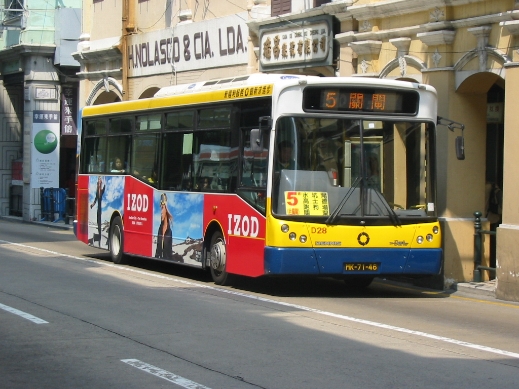 A Transmac Dennis Dart running on route no.5.